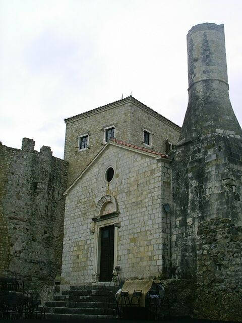 Town of Ulcinj at the very south of Montenegro